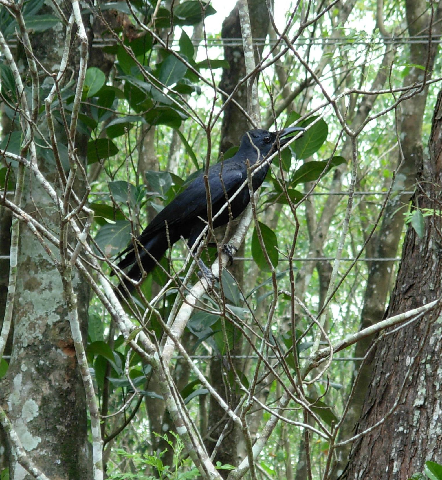 Indian Jungle Crow Corvus culminatus